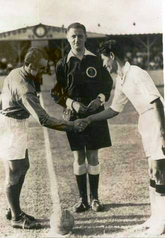 Indian captain,Talimeren Ao on right and French captain,Gabriel Robert on left shaking hands infront of referee of the match Gunnar Dahlner from Sweden before commencing the 1948 Olympics match India vs France.